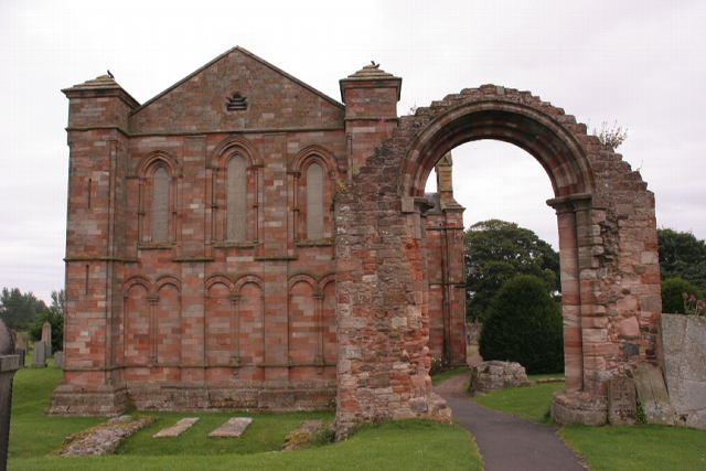 Coldingham Priory